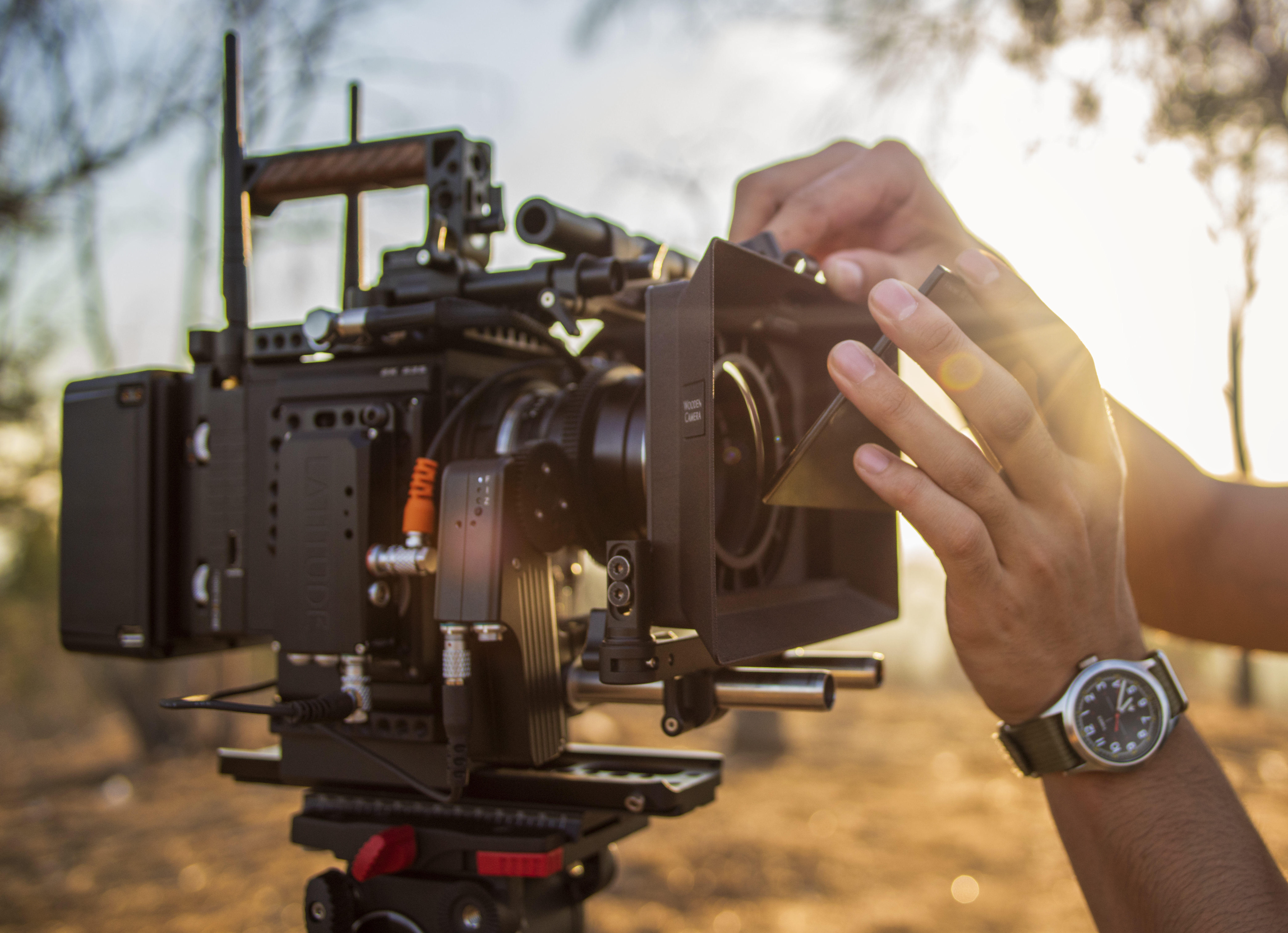 A filter being loaded into a lightweight matte box on a RED DSMC2 camera.